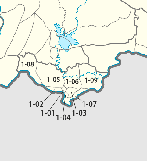 Map of the districts of Vientiane